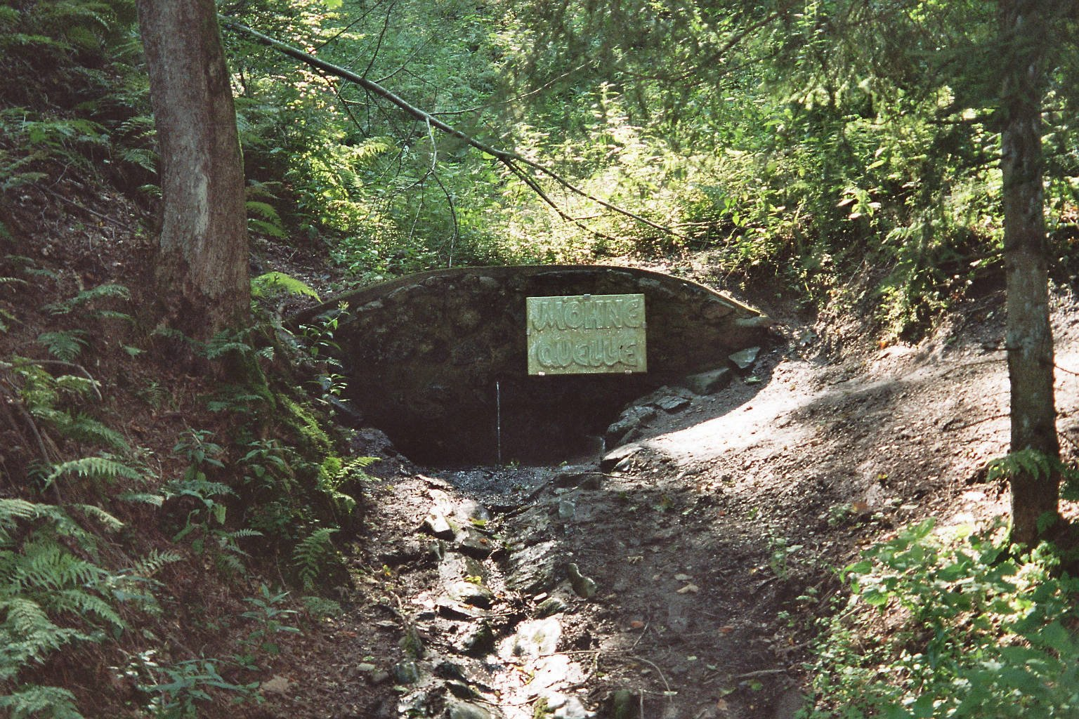 The source of the Möhne river nearby Brilon, Germany